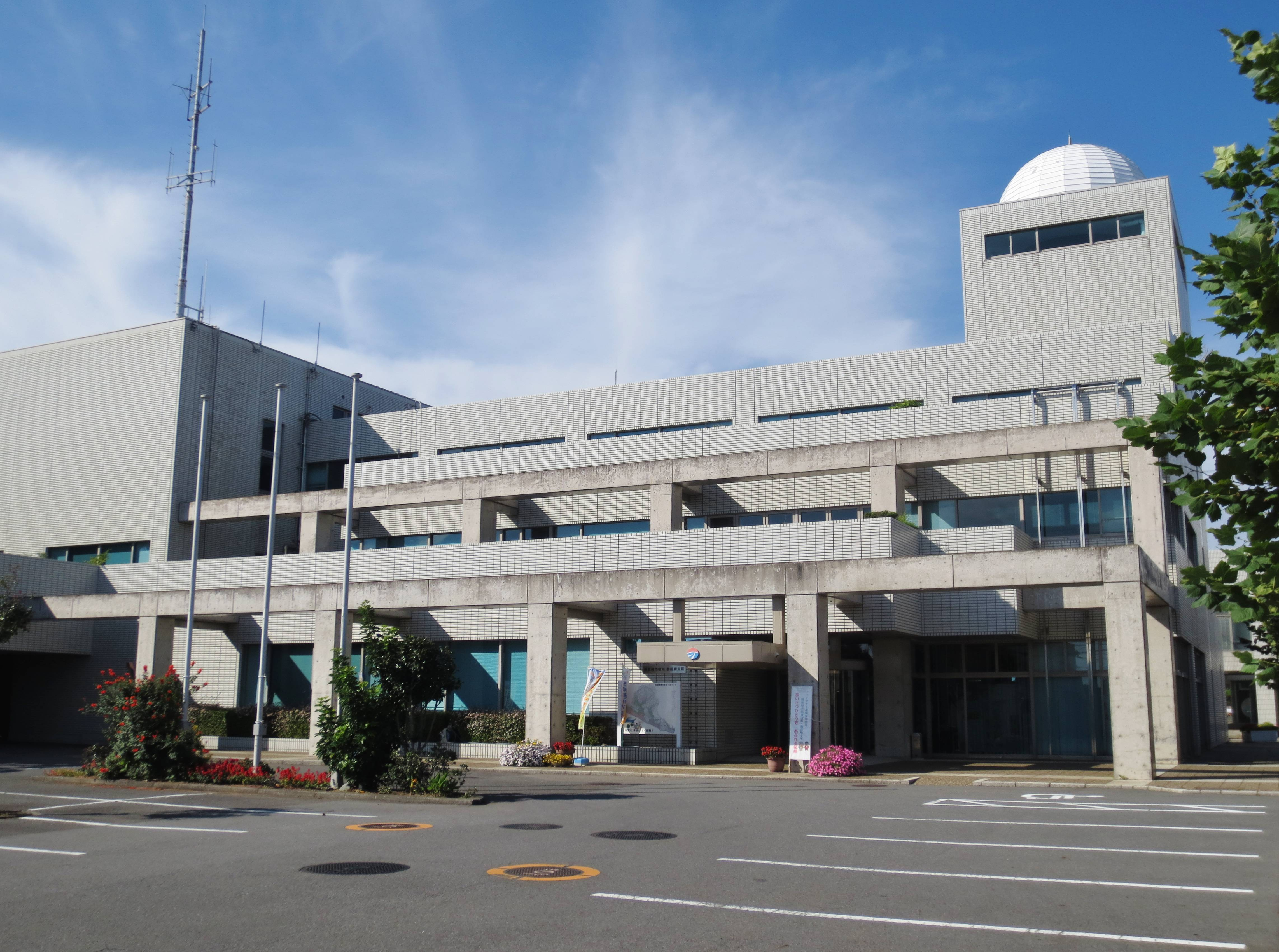 Omaezaki city Omaezaki branch office.